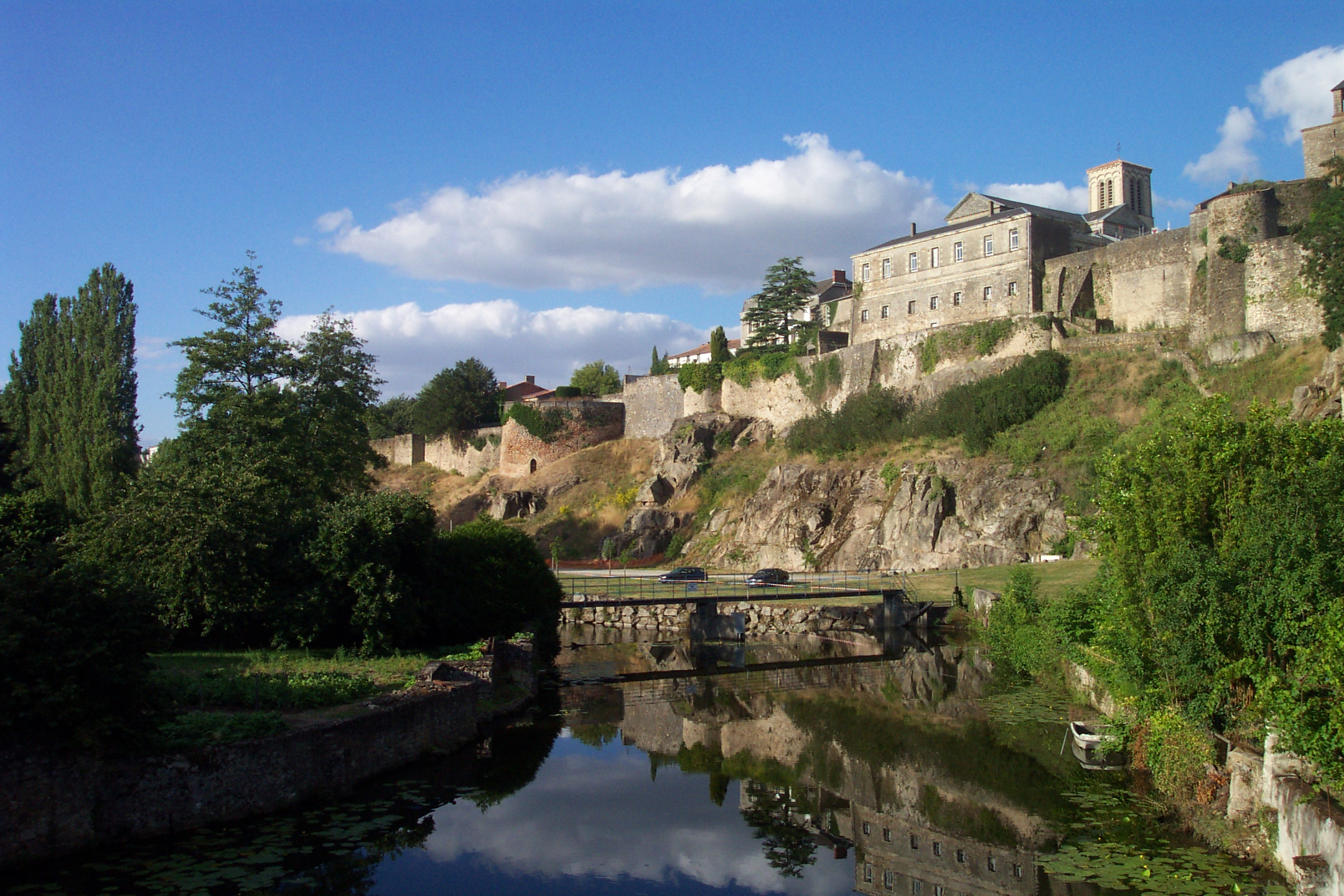 The battlements of the citadel in Parthenay, viewed from Saint-Paul's bridge across the River Thouet. For more information, see the Wikipedia article Parthenay.